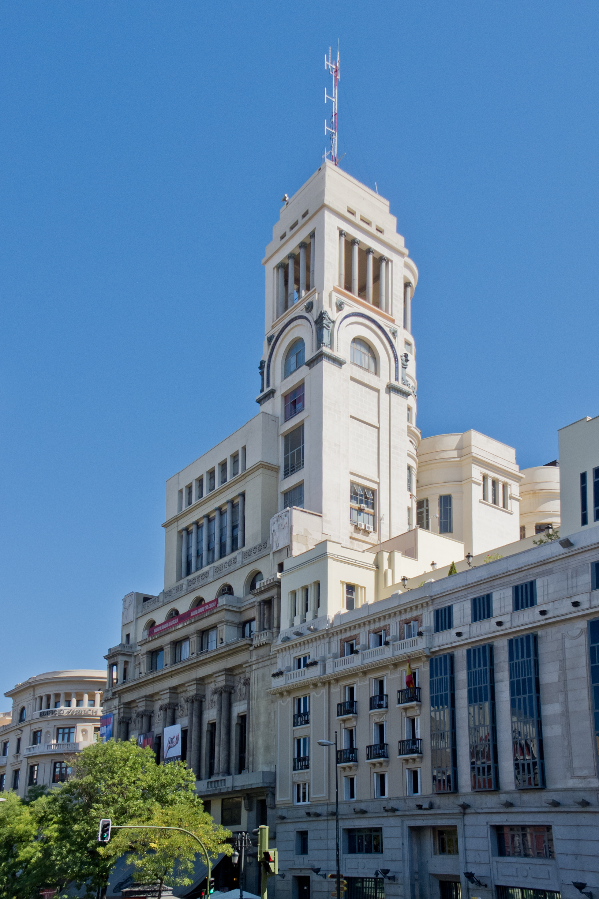 Círculo de Bellas Artes, Madrid, Spain.